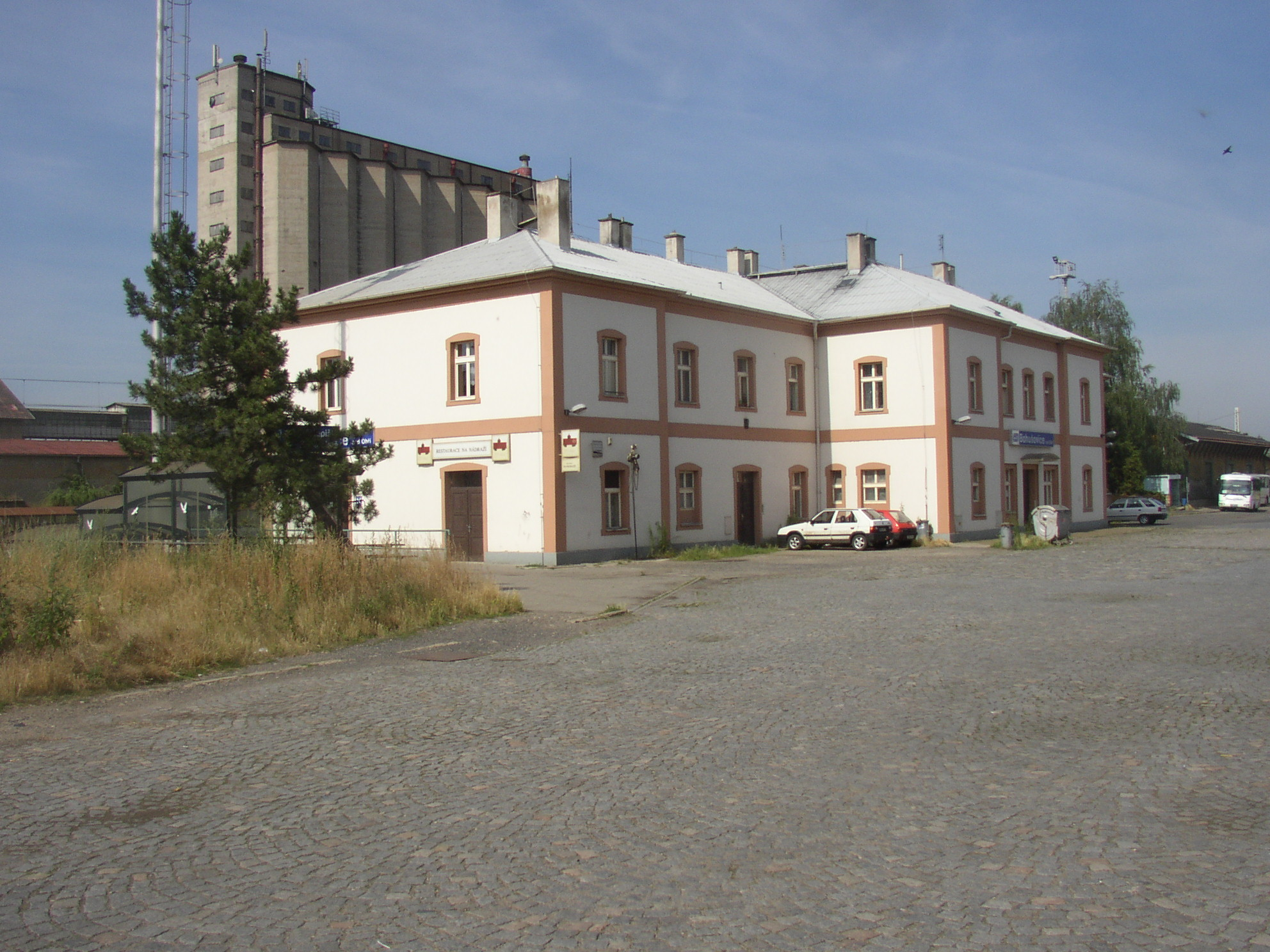 Bohušovice nad Ohří railway station on backbone 090 railway line from Prague to Děčín. A view from the northeast, the centre of the town is somewhere in the right behind observer's back. A pedestrian underpass to platform in direction Prague is located next to the pine in the left, a bus stop in the far right. Beyond the track the Bohušovice Granary.